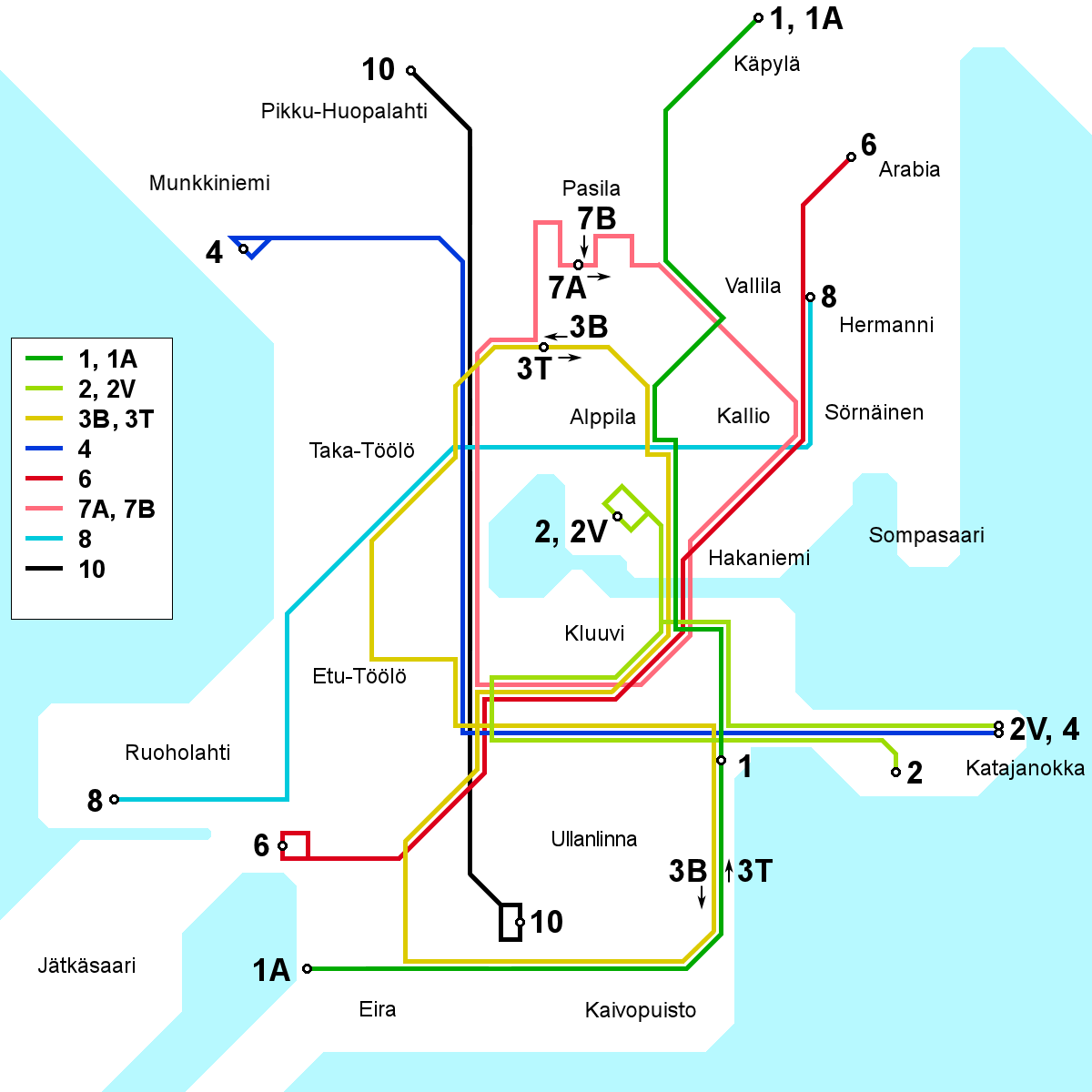 Map of the Helsinki tram network as it appeared between 1995 and 1997. District names in Finnish, a Swedish version can be made on request.